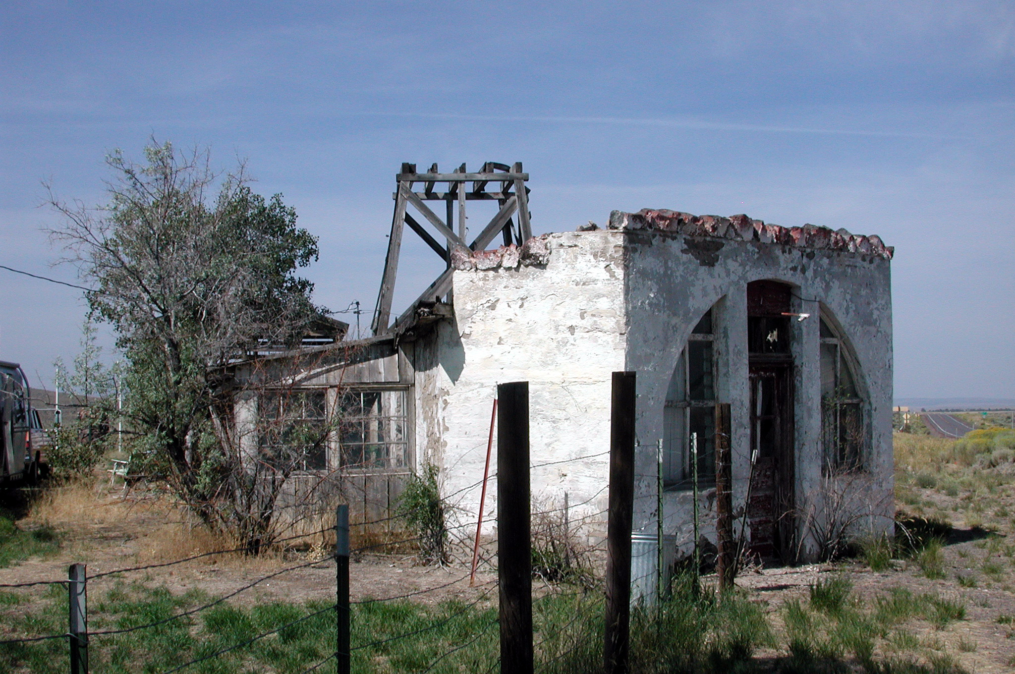 Ruins of a building along U.S. Route 20 in Brothers, Oregon, United States. View is to the southwest from the edge of the highway, visible on the right.